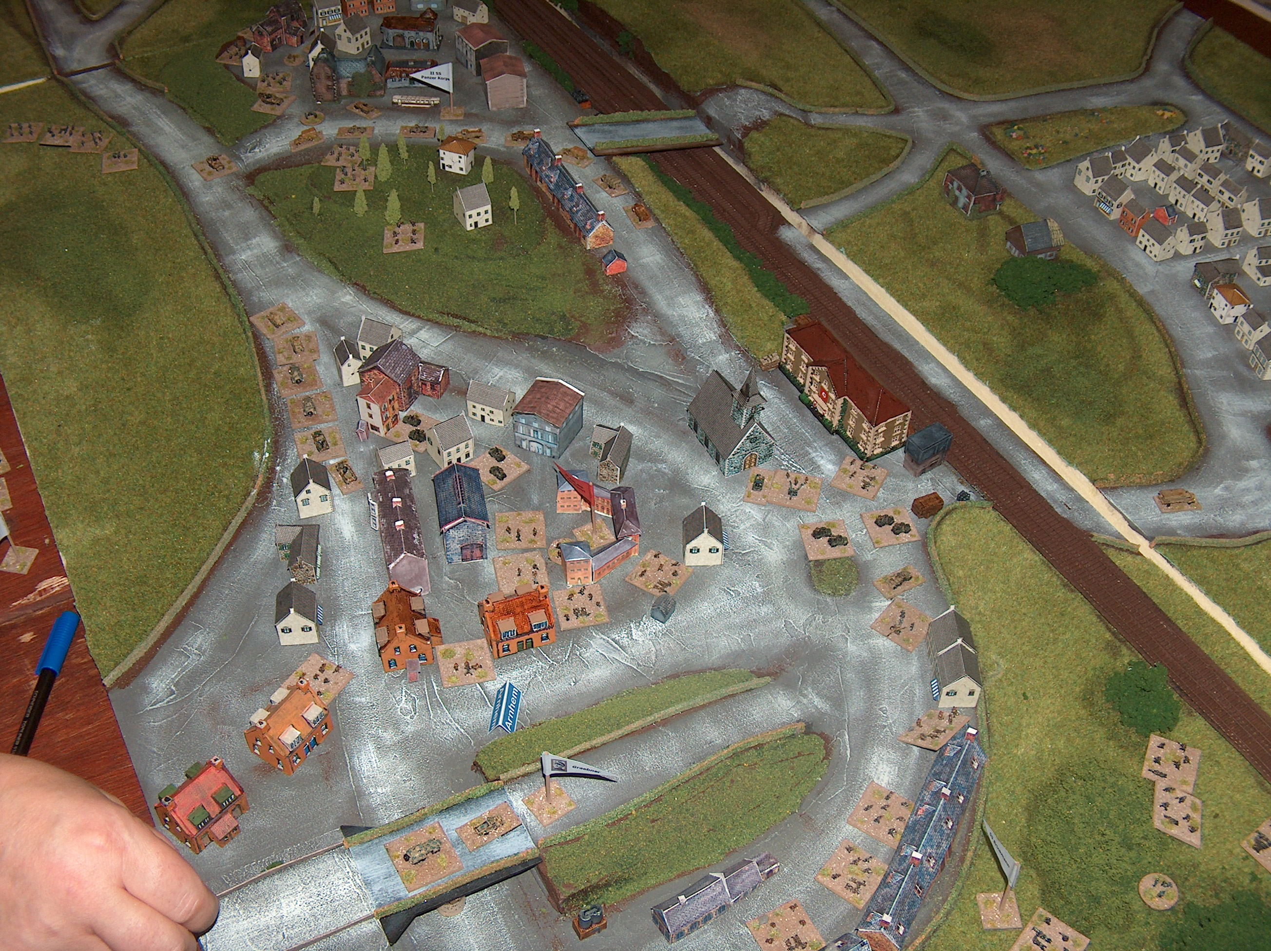 6mm scale paper models for miniature wargaming, the smallest standard scale 1/300 or 1/285